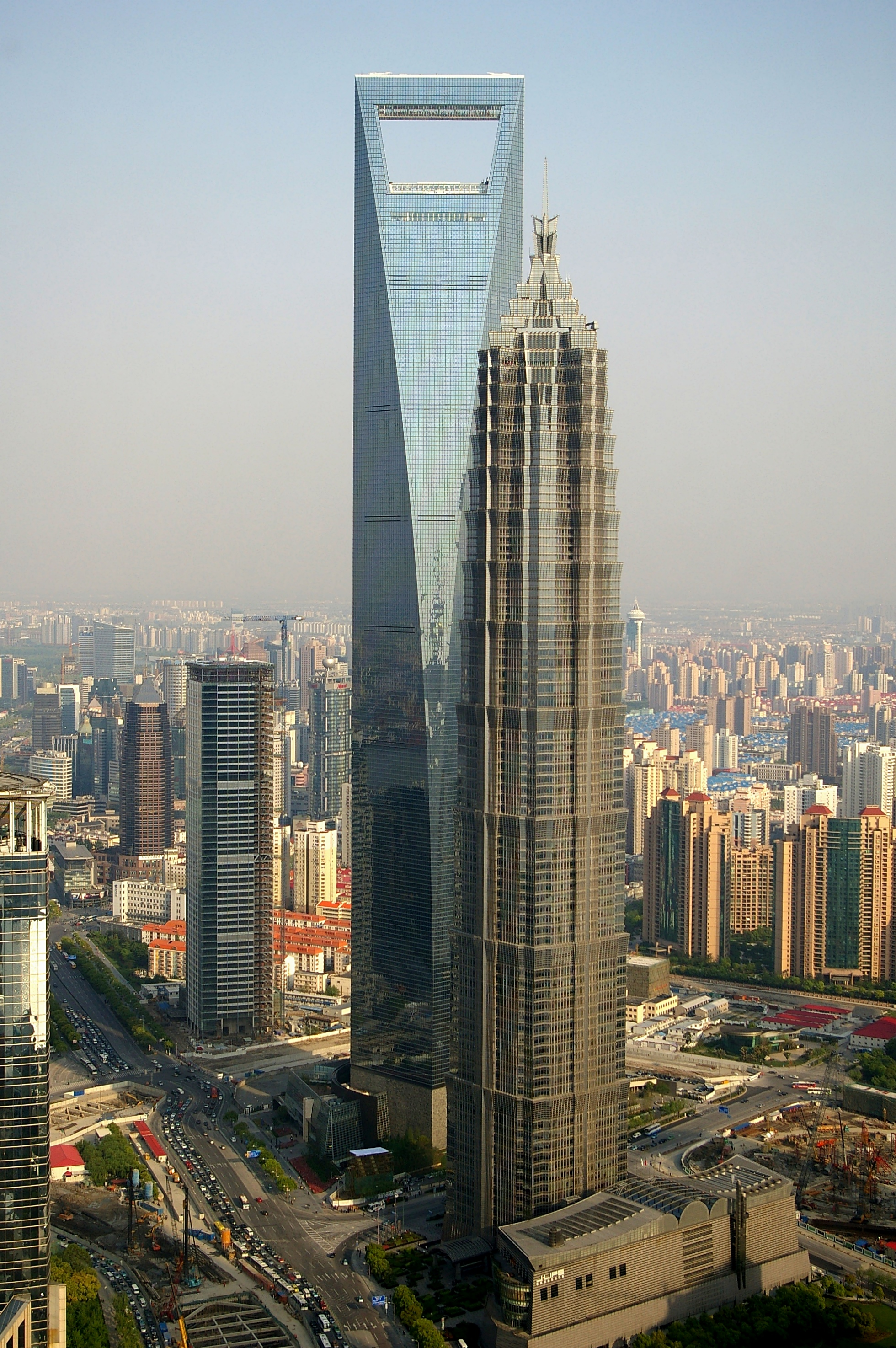 Shanghai World Financial Center and Jin Mao Tower, photo taken from Oriental Pearl Tower